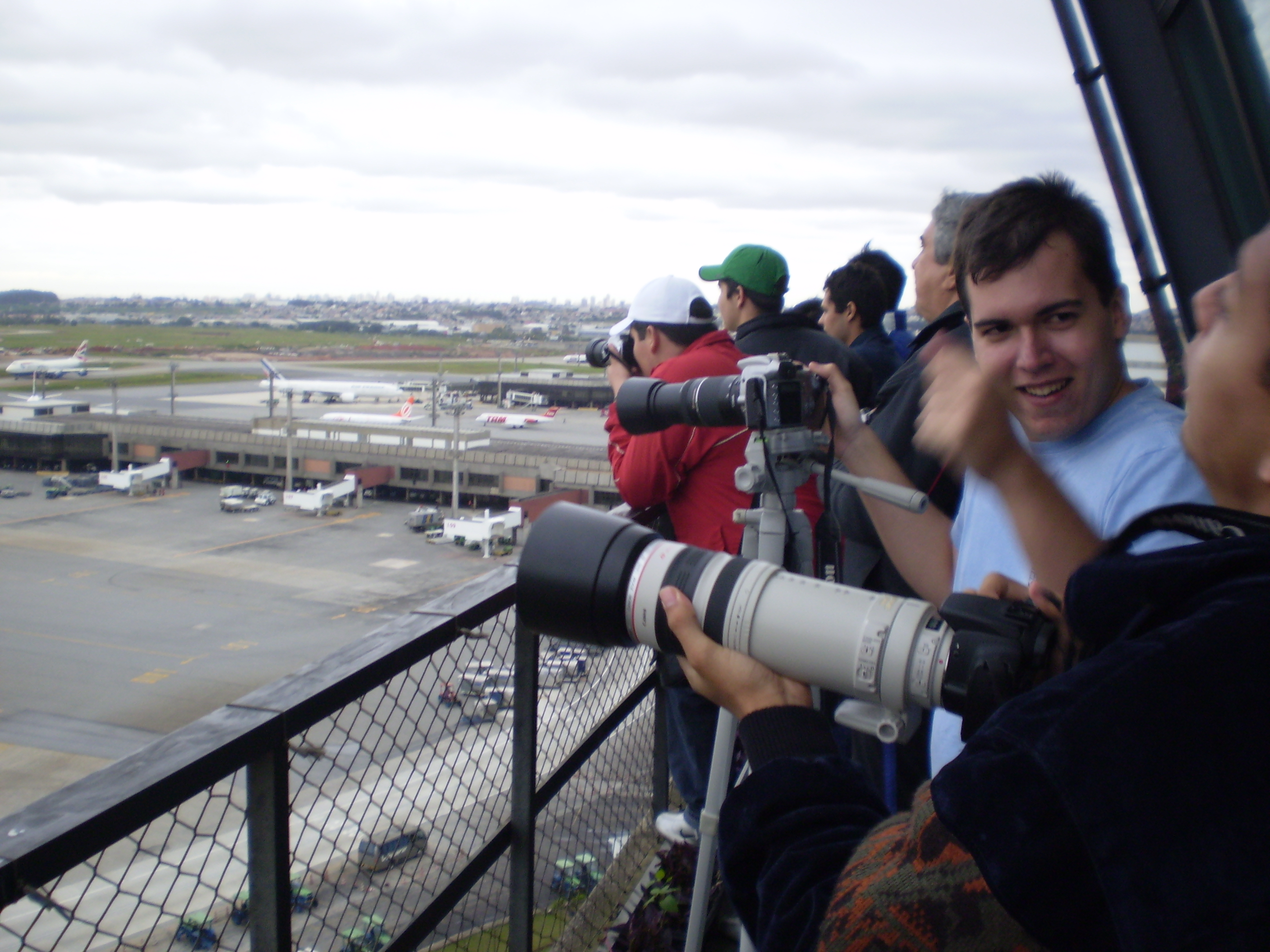 Spotters at São Paulo/Guarulhos International Airport's control tower.